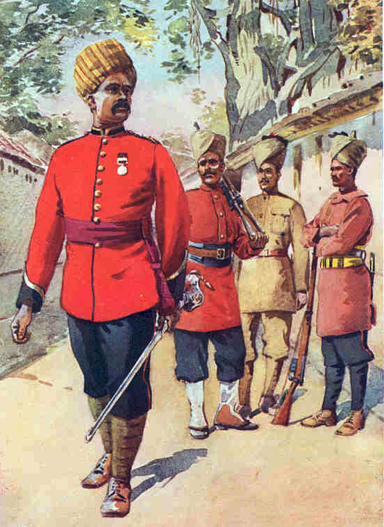 Mahratta soldiers of the British Indian Army. Left to right: 103rd Mahratta Light Infantry, 110th Mahratta Light Infantry, 116th Mahrattas, 114th Mahrattas